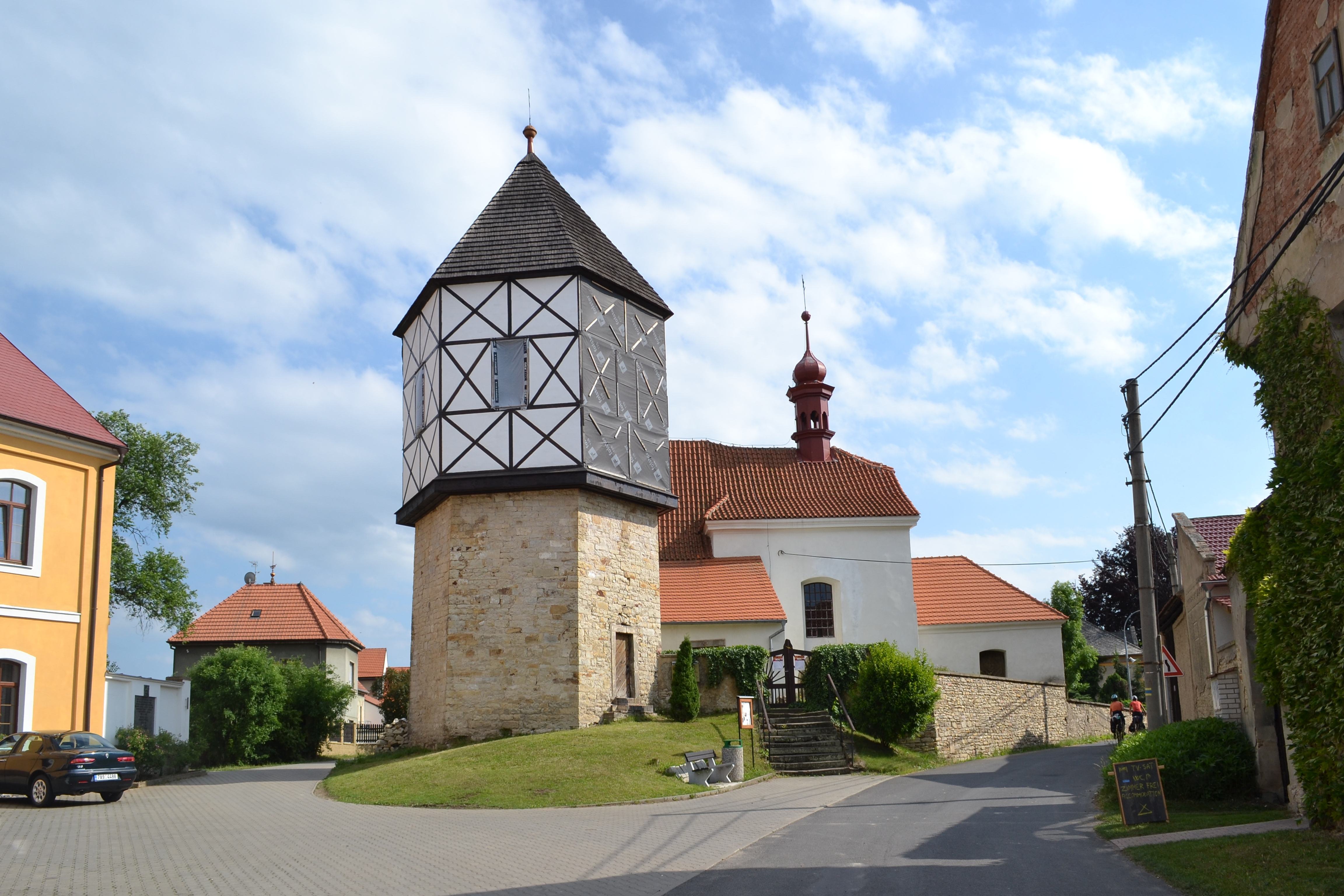 Bell tower and church of St. Nicolas in Chodouny-Lounky, Ústí nad Labem region, Czech Republic.